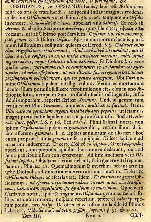 OBSIDIANUS, vei OPSIANUS Lapis (Hofmann, Johann Jacob (1635-1706): Lexicon Universale)